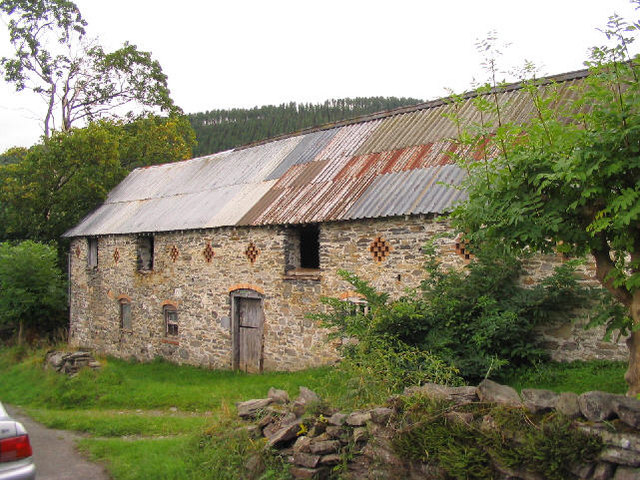 Barn at Ty'n-llwyn.